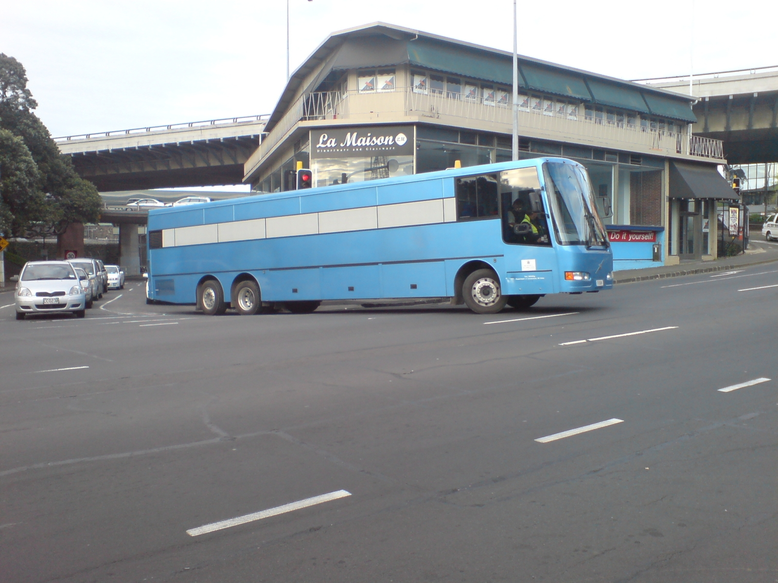 A prison bus near Mount Eden Prisons in Auckland City, New Zealand.